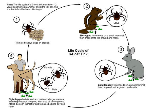 found at